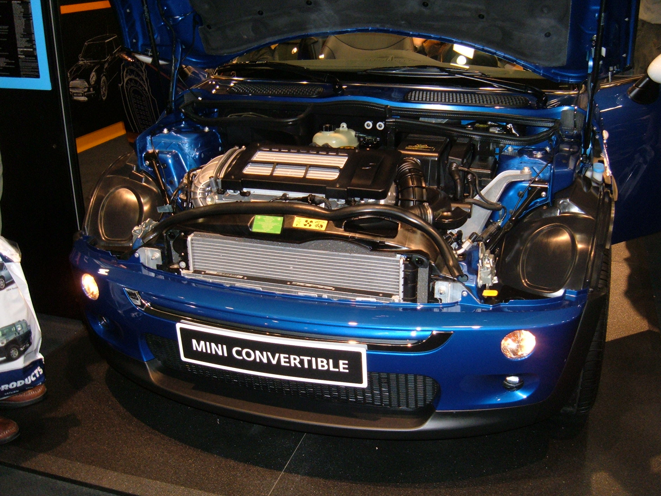 The engine of a 2005 MINI Cooper convertible at the 2004 San Francisco International Auto Show.